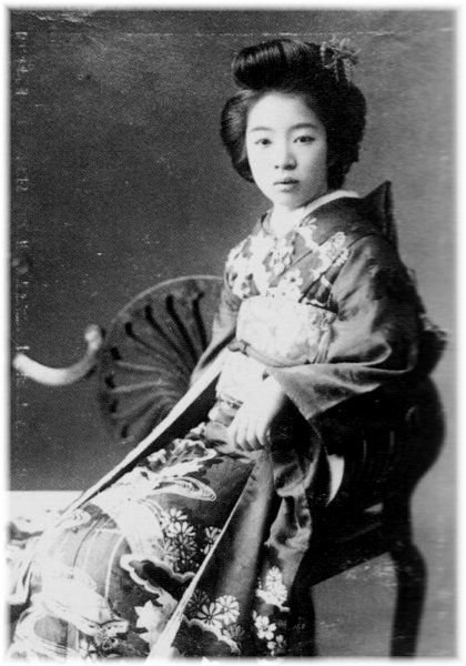 Japanese writer Mori Mari, daughter of novelist Mori Ōgai.